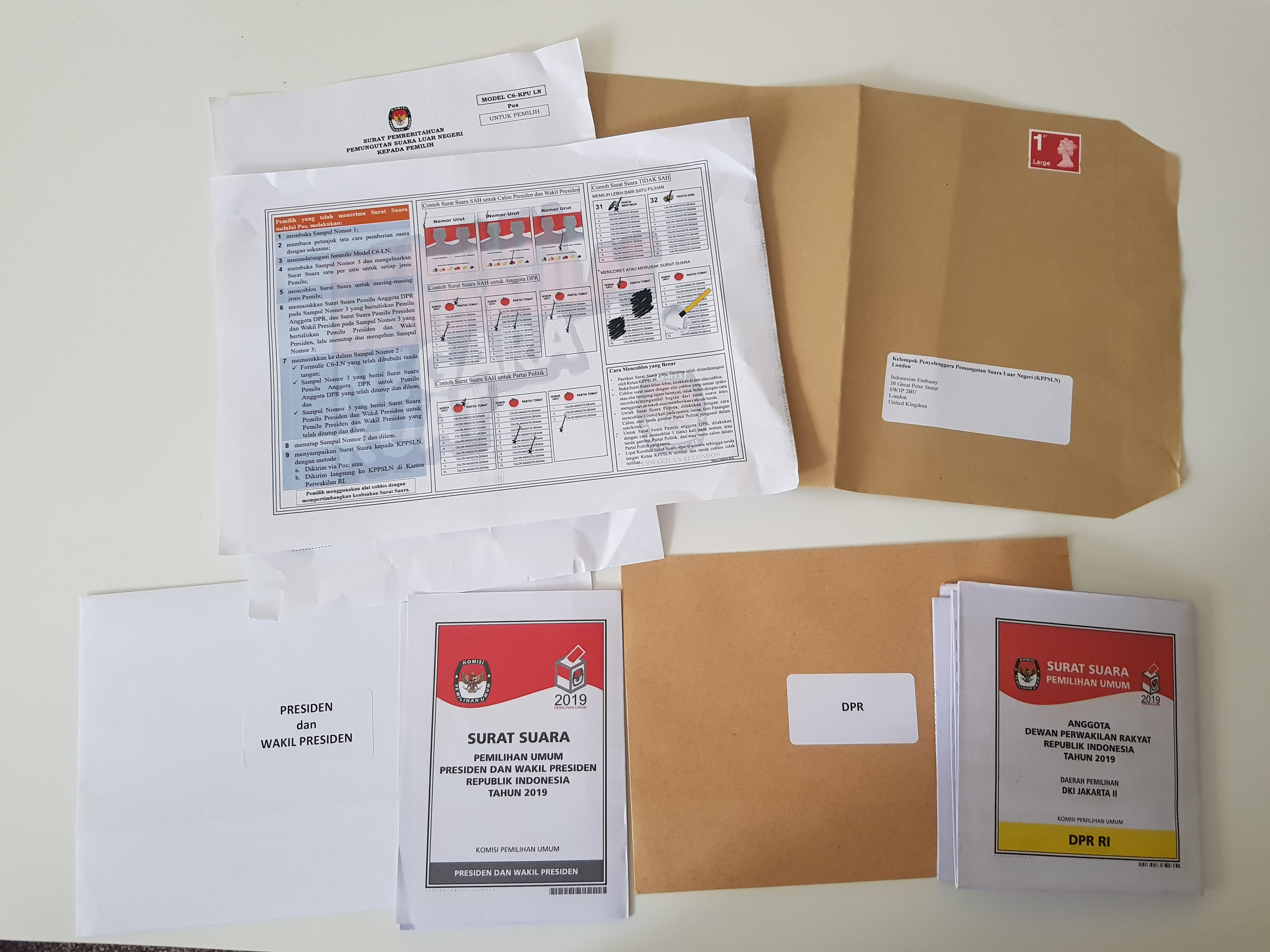 Postal voting package sent to an Indonesian voter in the United Kingdom for the 2019 general election. The grey-marked ballot is for the presidential election, while the yellow-marked ballot is for the legislative election for the Jakarta 2nd constituency (Central Jakarta, South Jakarta and abroad voters).